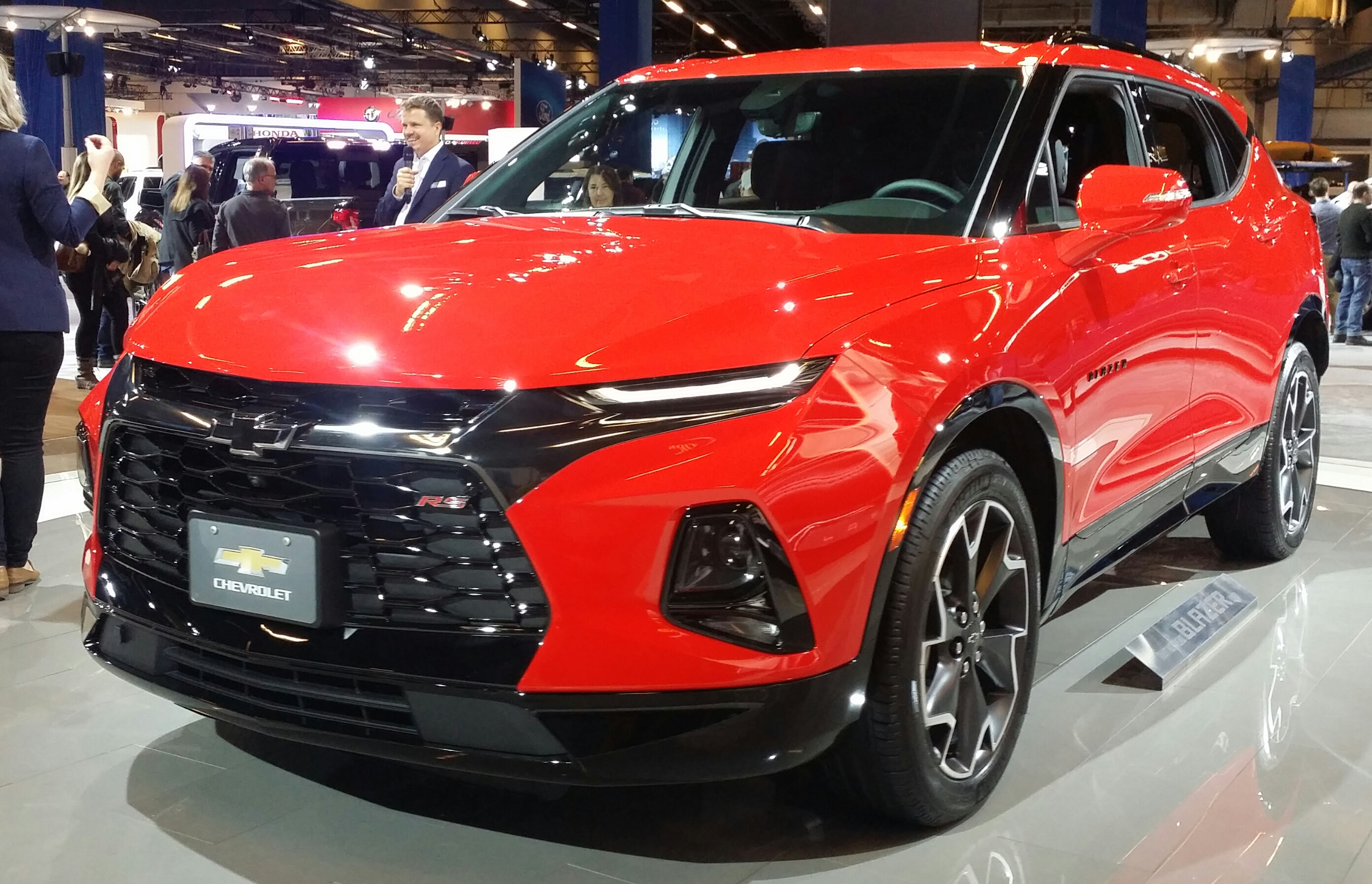 2019 Chevrolet Blazer photographed in Montréal , Québec , Canada at the 2019 Montréal International Auto Show.